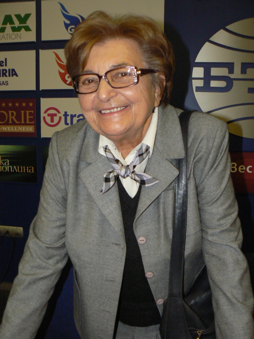 Bulgarian translator and editor Zheni Bozhilova, at a translators' meeting in the Bulgarian News Agency